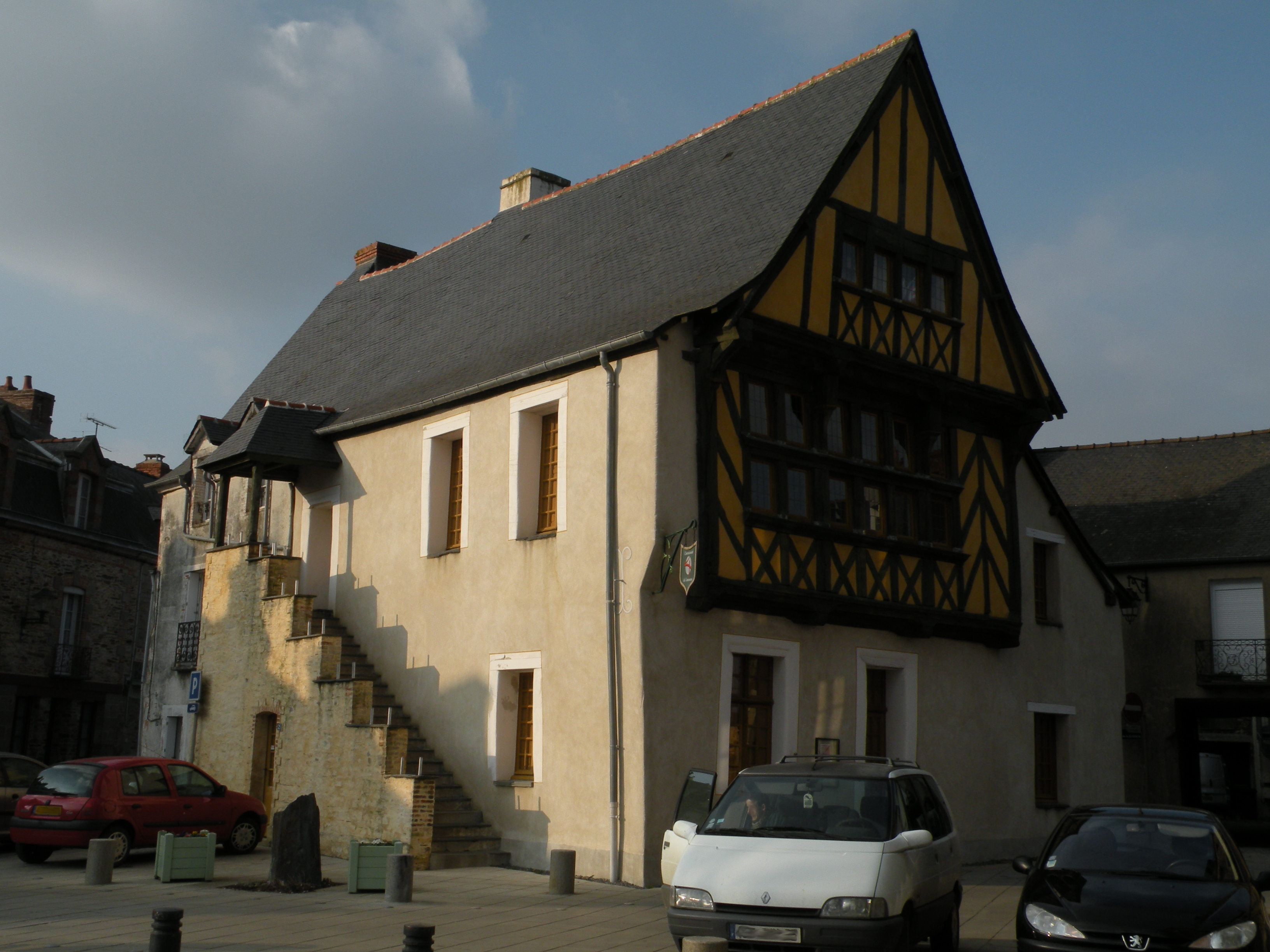 Seat of the Communauté de communes du Grand-Fougeray in Grand-Fougeray